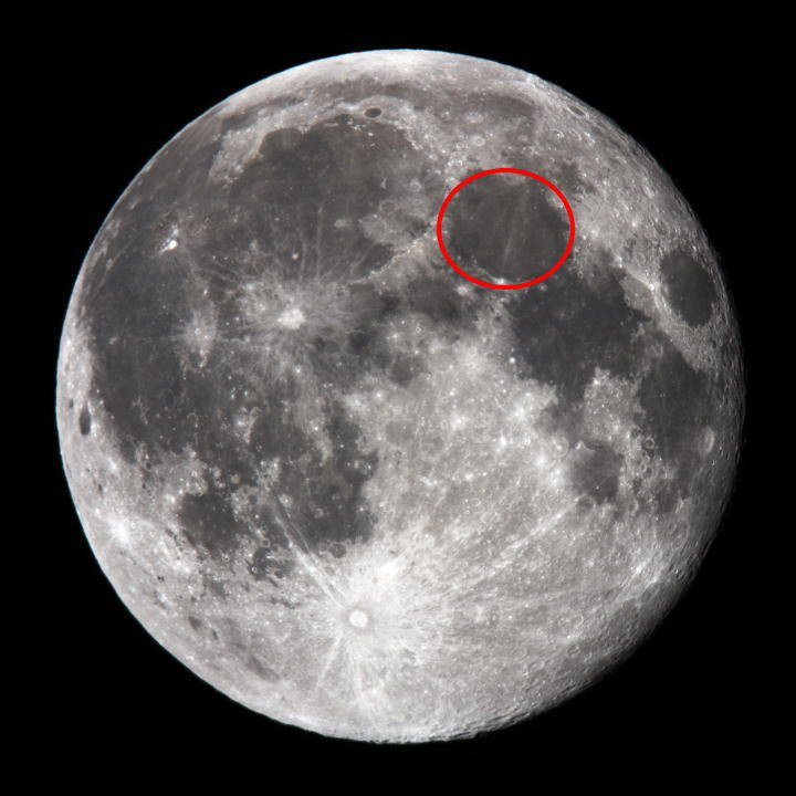 The Location of Mare Serenitatis, One of the Lunar Geographical Features.